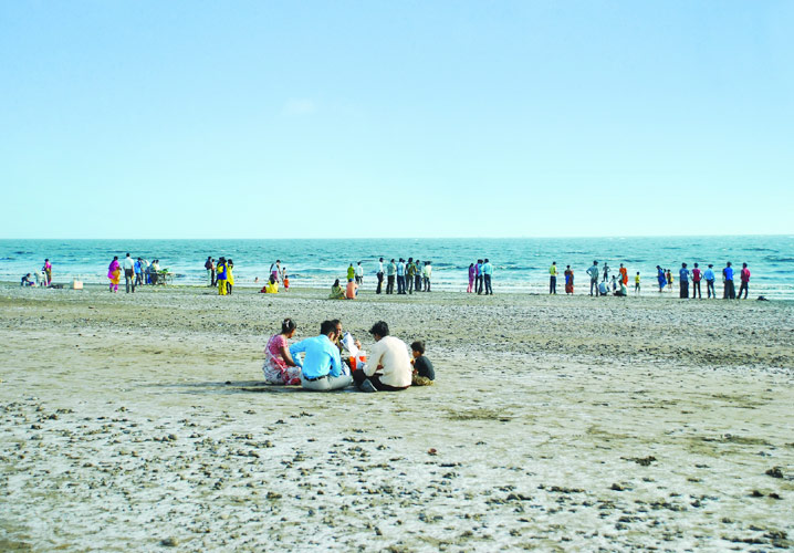 Dumas beach near Dariya Ganesha Temple